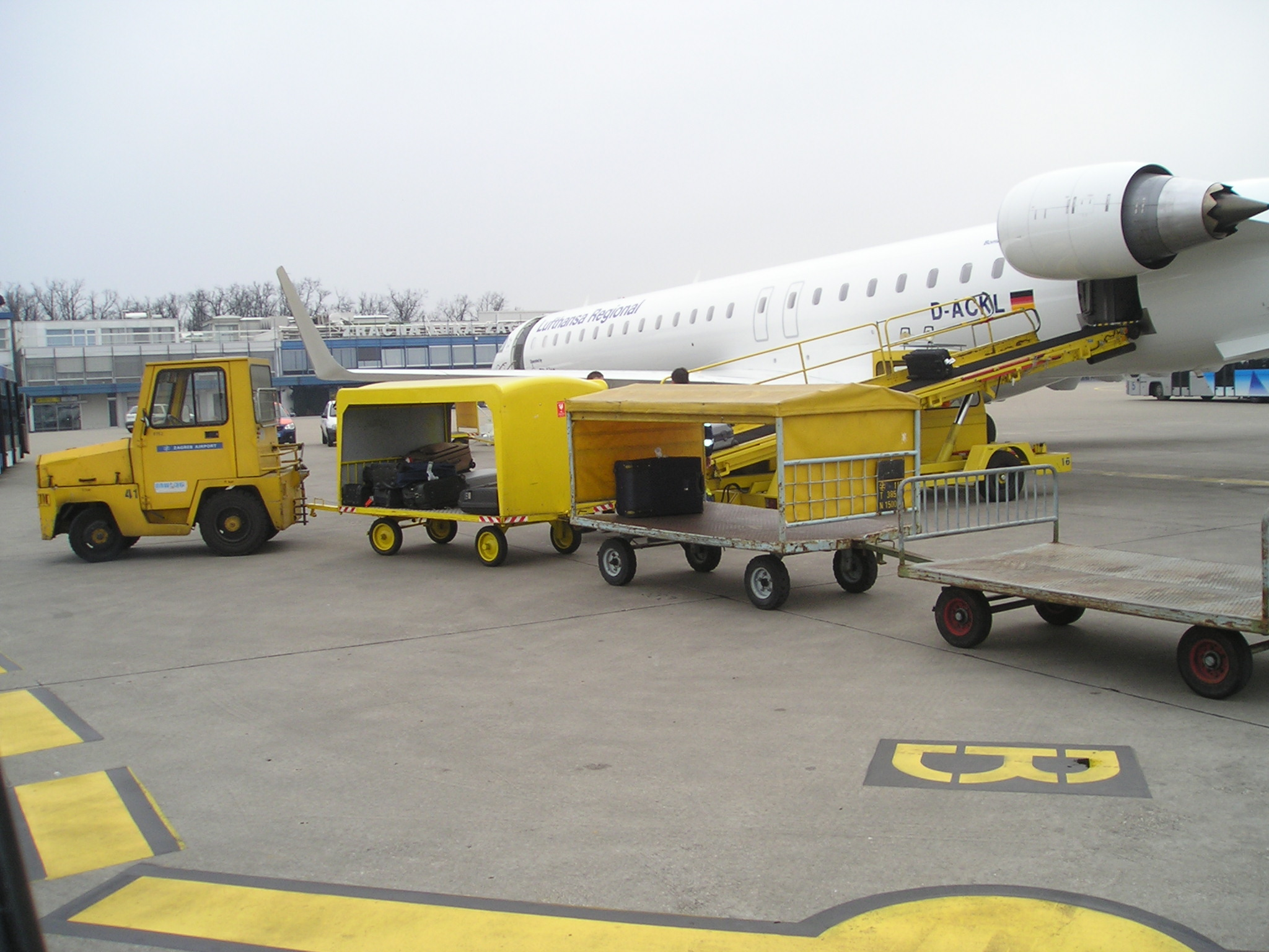 Ground equipment on an aircraft